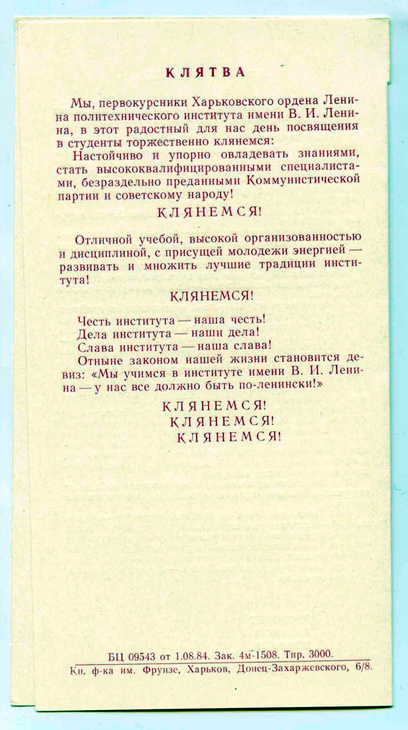 Kh. P. I. students kliatva 31 aug 1984 year